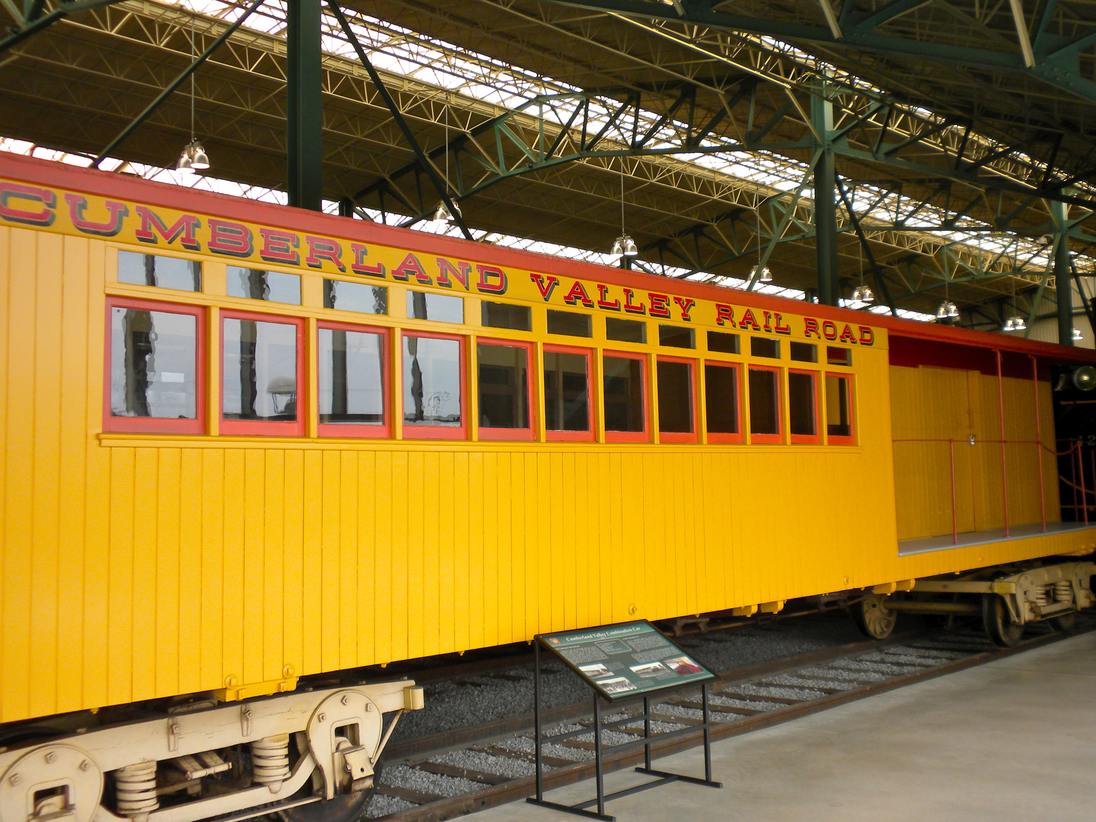 Cumberland Valley Railroad (CVRR) combined passenger and baggage car (exterior). Built 1855, in CVRR shops in Chambersburg, Pennsylvania. The combo of passenger and baggage cars is rare and few passenger cars of such an early date survive. At the Railroad Museum of Pennsylvania in Strasburg, Pennsylvania. On NRHP since December 17, 1979.